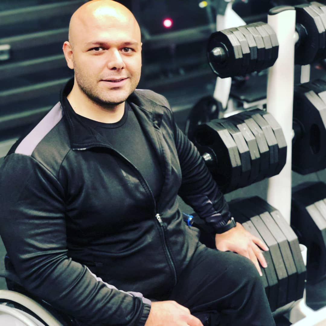 SeyedHamed SolhipourAvanji, (born in 22 May 1989, Tehran, Iran) is an Iranian ParaPowerlifter and the World Champion in the 97 kg. category.